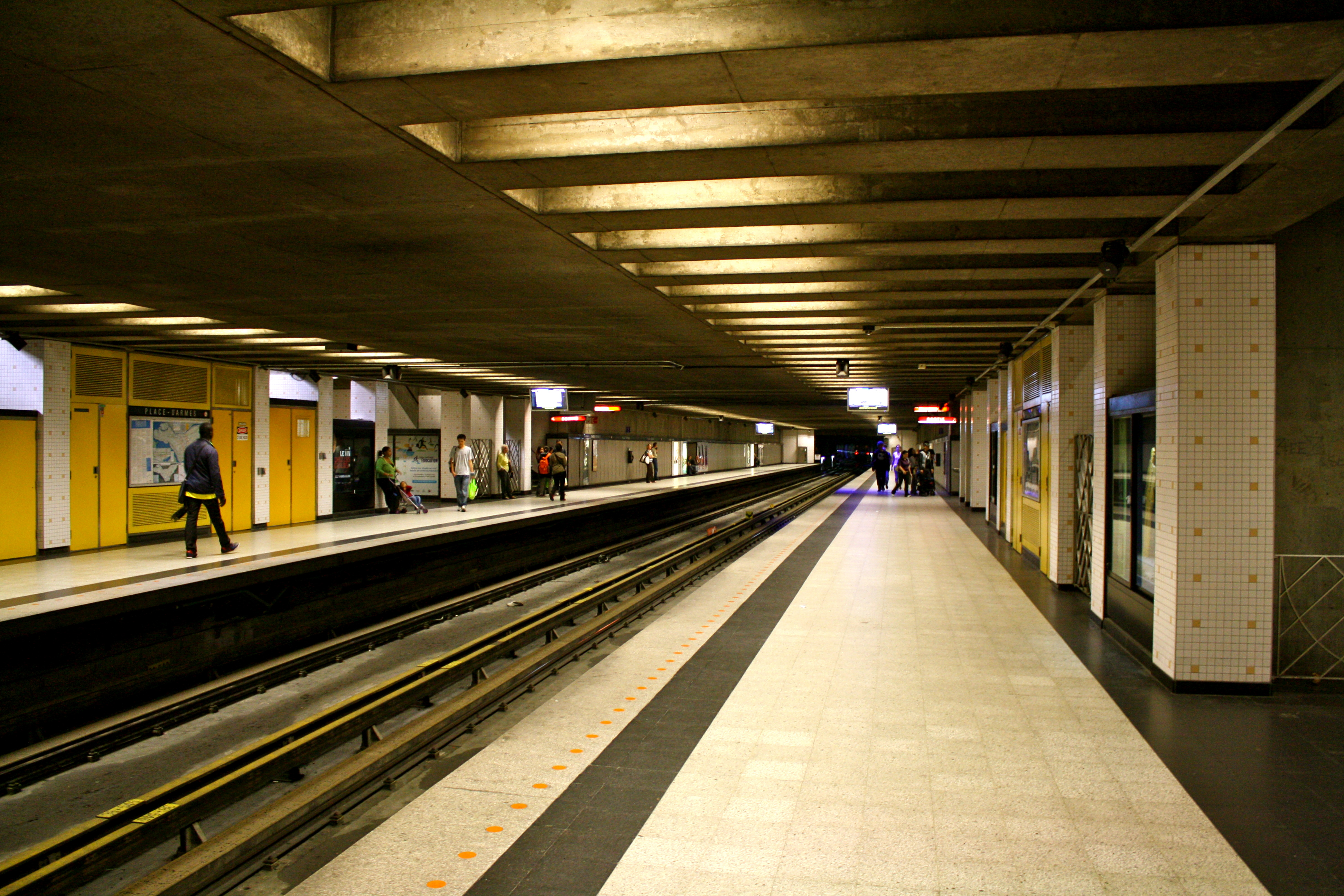 Place D'Armes Metro station platform.